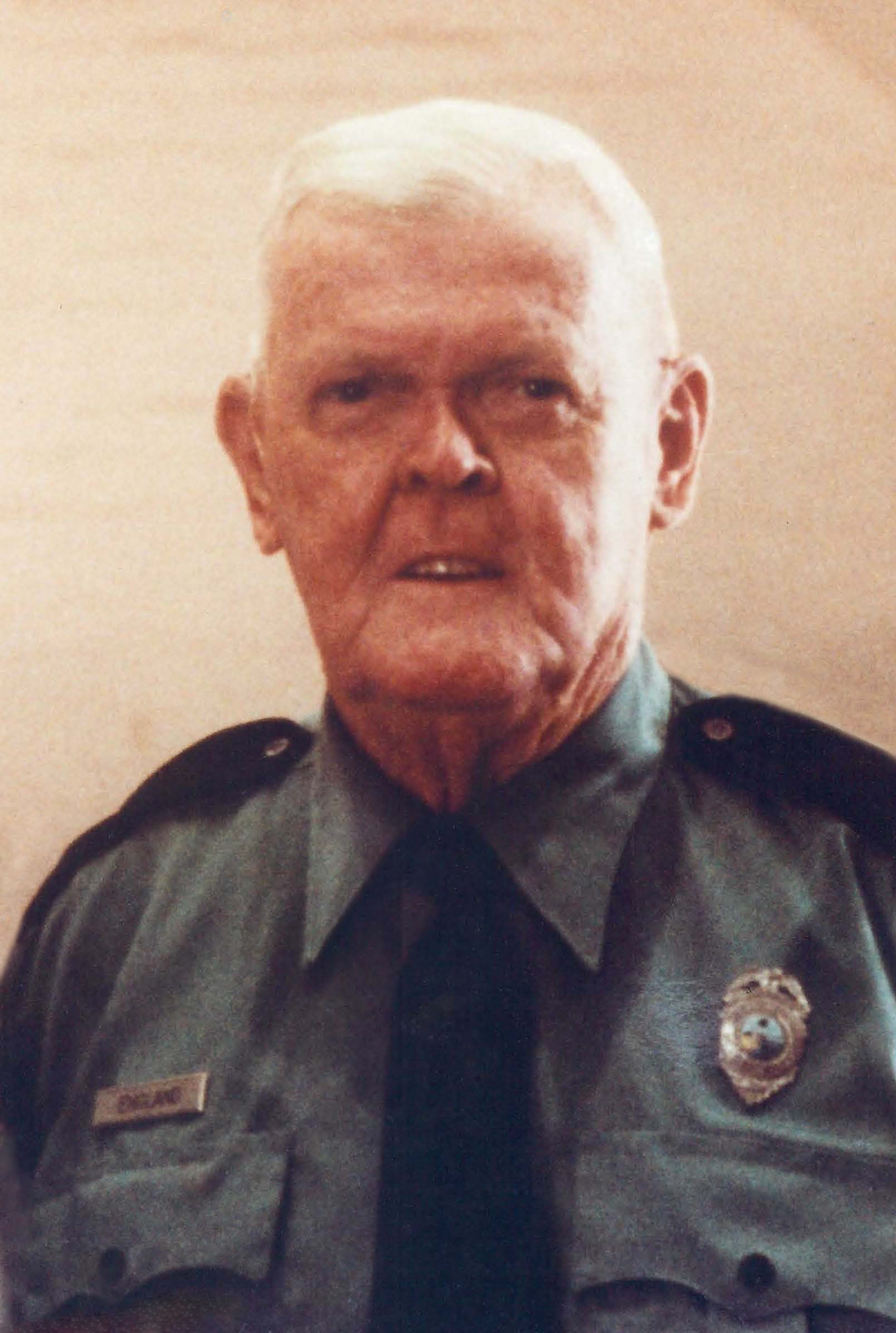 Photo taken on the day that Ranger Howard S. England retired from the Florida Park Service, 1984. Taken by uploader.